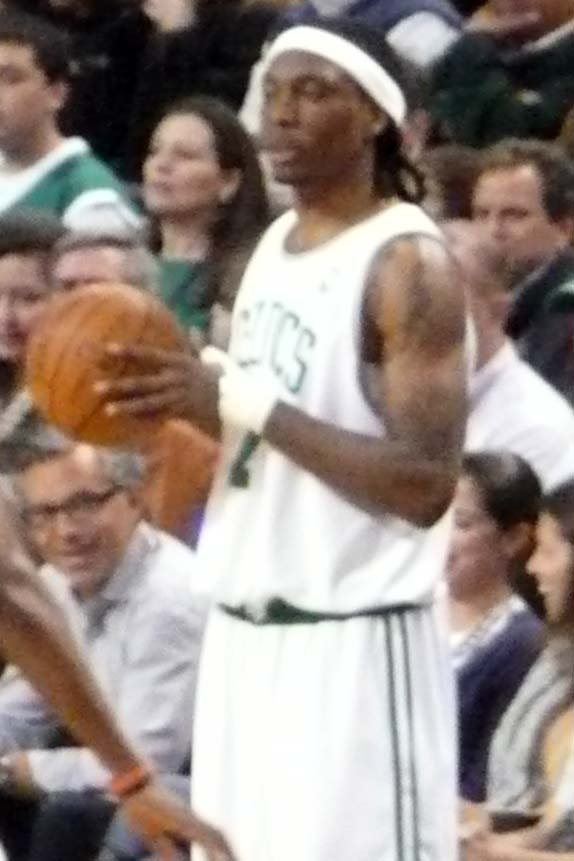 Marquis Daniels of the Boston Celtics